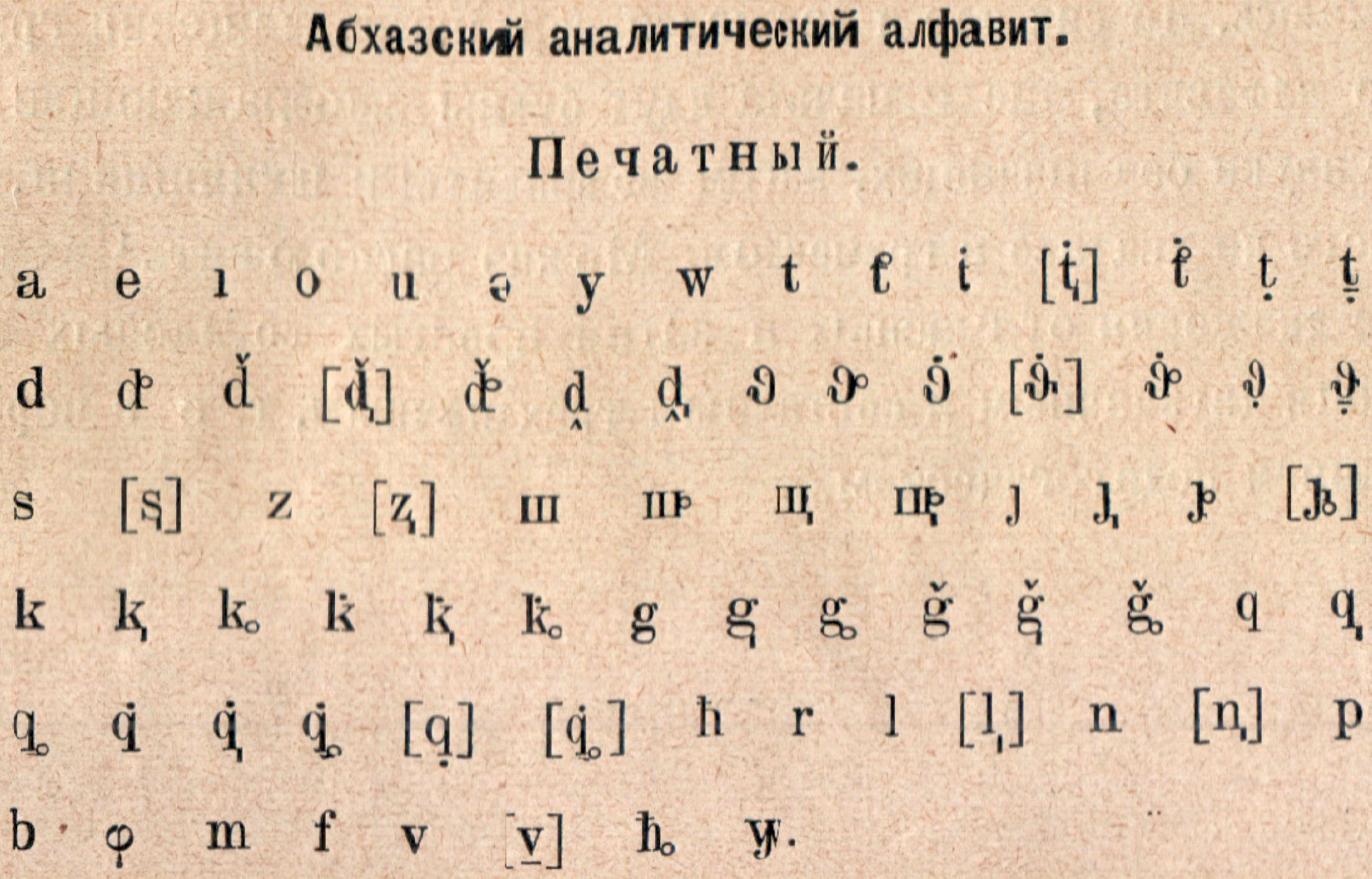 Scan from: Марр, Николай Яковлевич (1864–1934): Абхазский аналитический алфавит. (in: Труды яфетического семинария, vol. I, Leningrad 1926), p. 51, table 2. Showing the Latin-based Analytical Alphabet developed for the Abkhaz language.